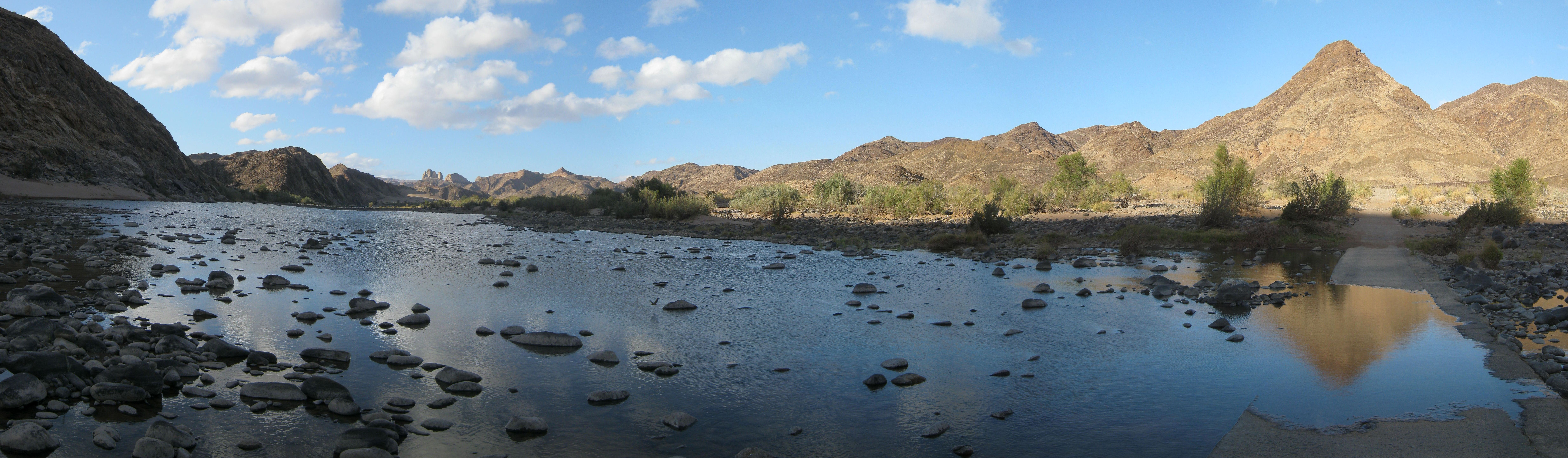 Fish River Canyon Causeway to Four Finger Rock